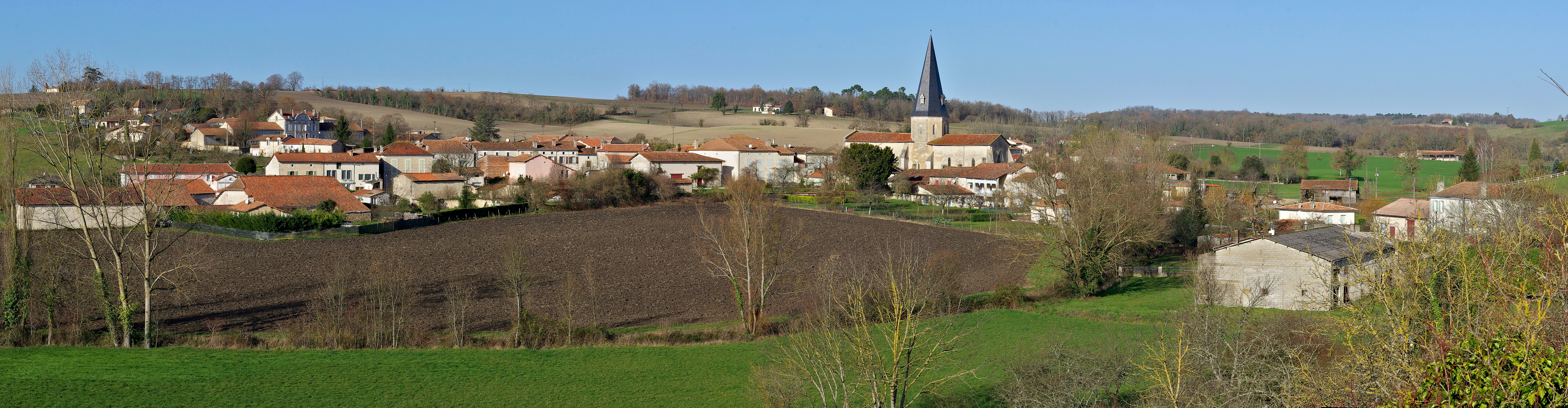 The village, as seen from SE, from road D 137, Montboyer, Charente, France.